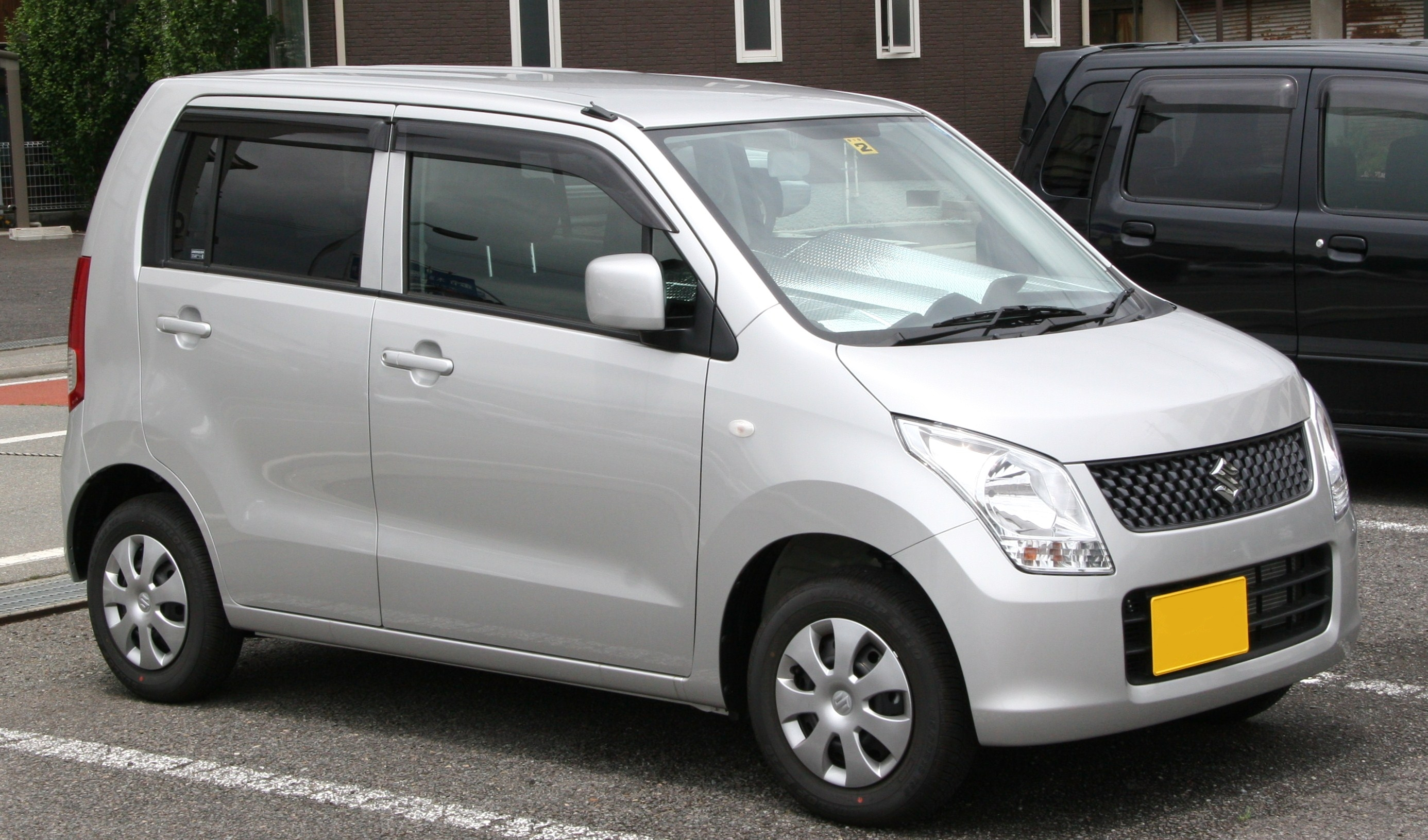 Suzuki Wagon R